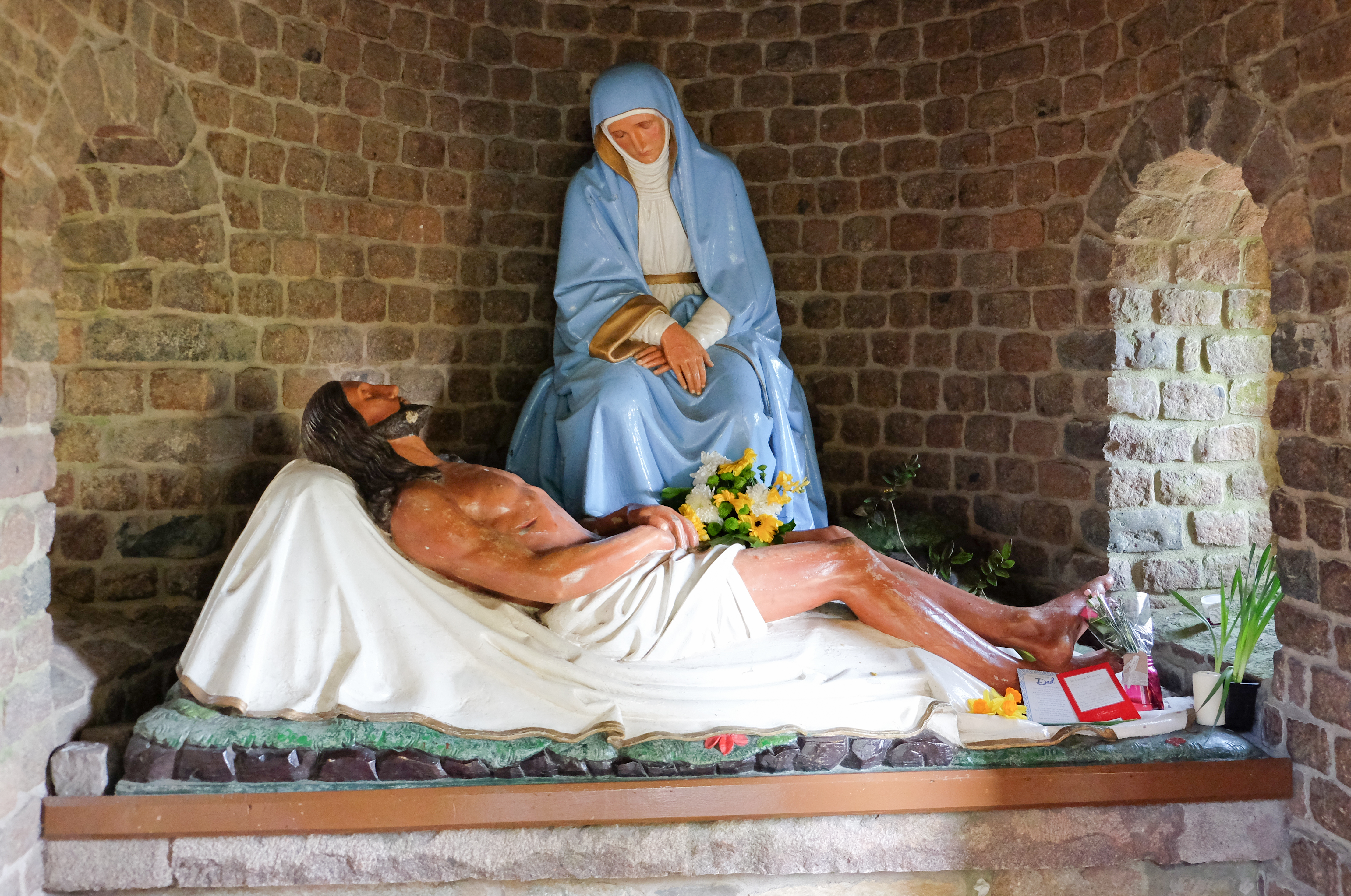 A painted wooden sculpture of the Blessed Virgin weeping over her divine Son by Johann Petz of Munich in the Chapel of Dolours at Mount Saint Bernard Abbey, Leicestershire